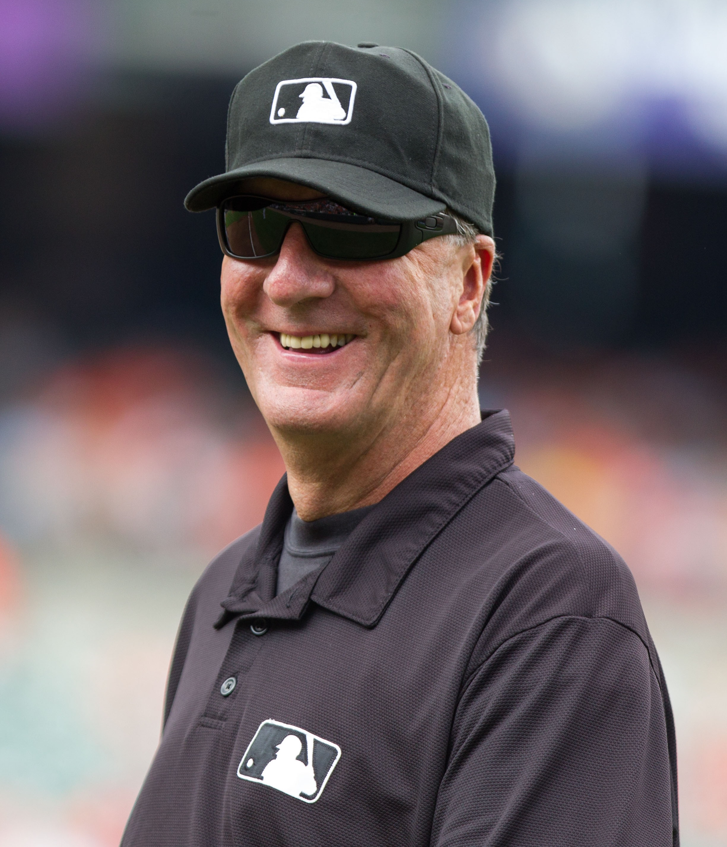 MLB umpire Tim McClelland – Athletics at Orioles July 29, 2012